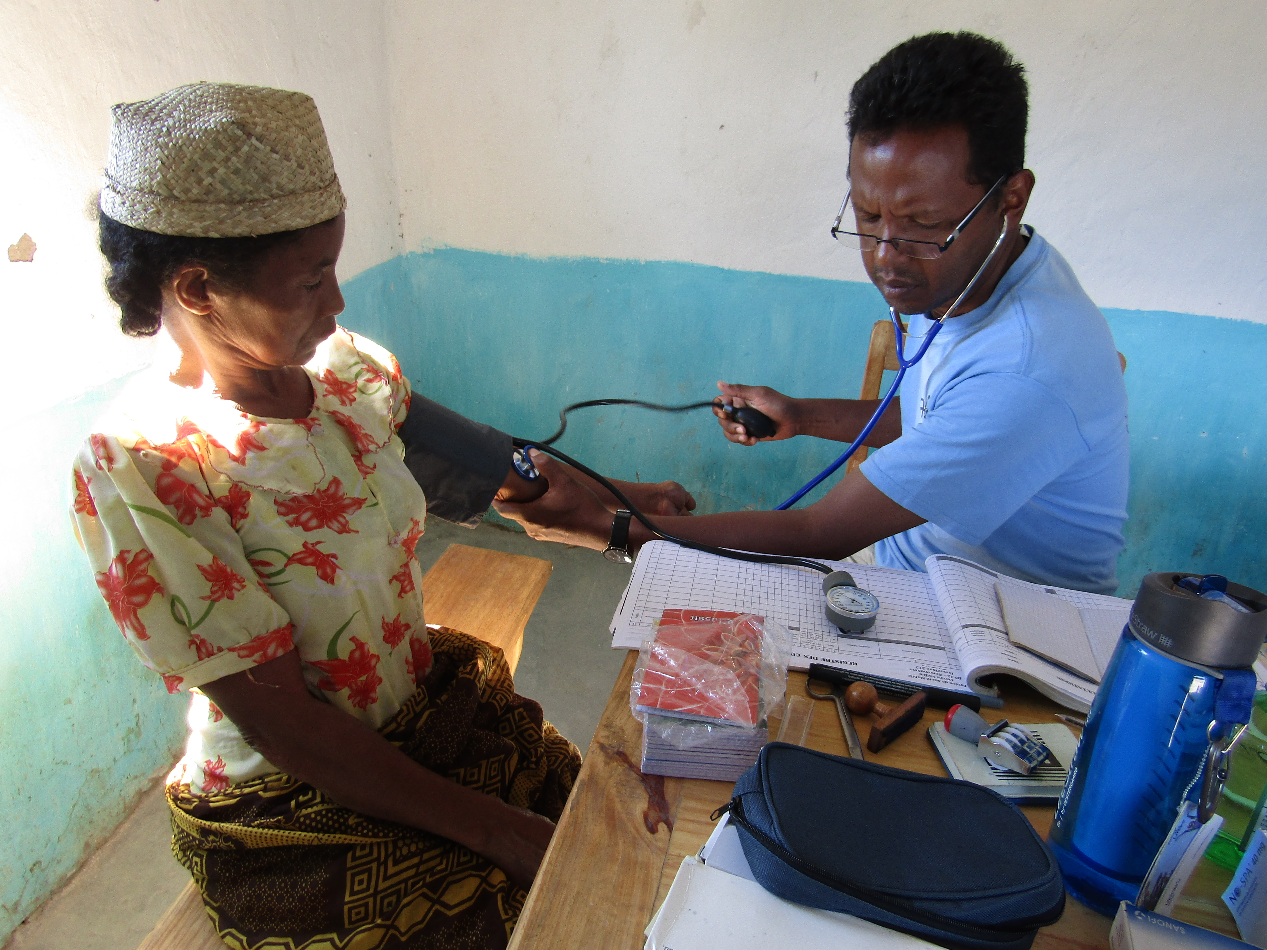 This is an image of "African people at work" from Madagascar